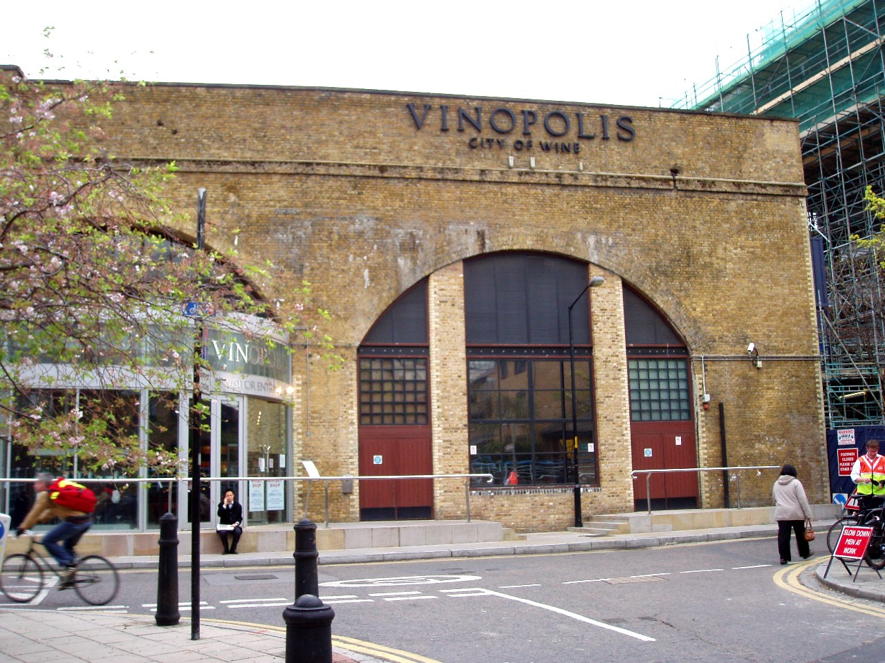 Wine-related empire spanning a wine-tasting tour, several bars (including Wine Wharf), cafes and restaurants, all near Borough Market. I've tagged it a museum, but it's not, I just don't know quite what to call it.